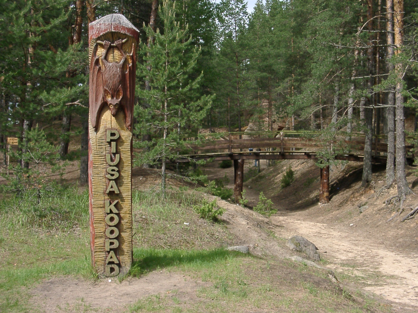 Wooden Sign of Piusa Caves 2003